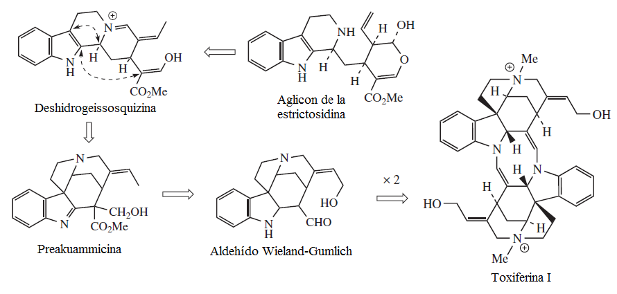 Toxiferine I biosynthesis scheme